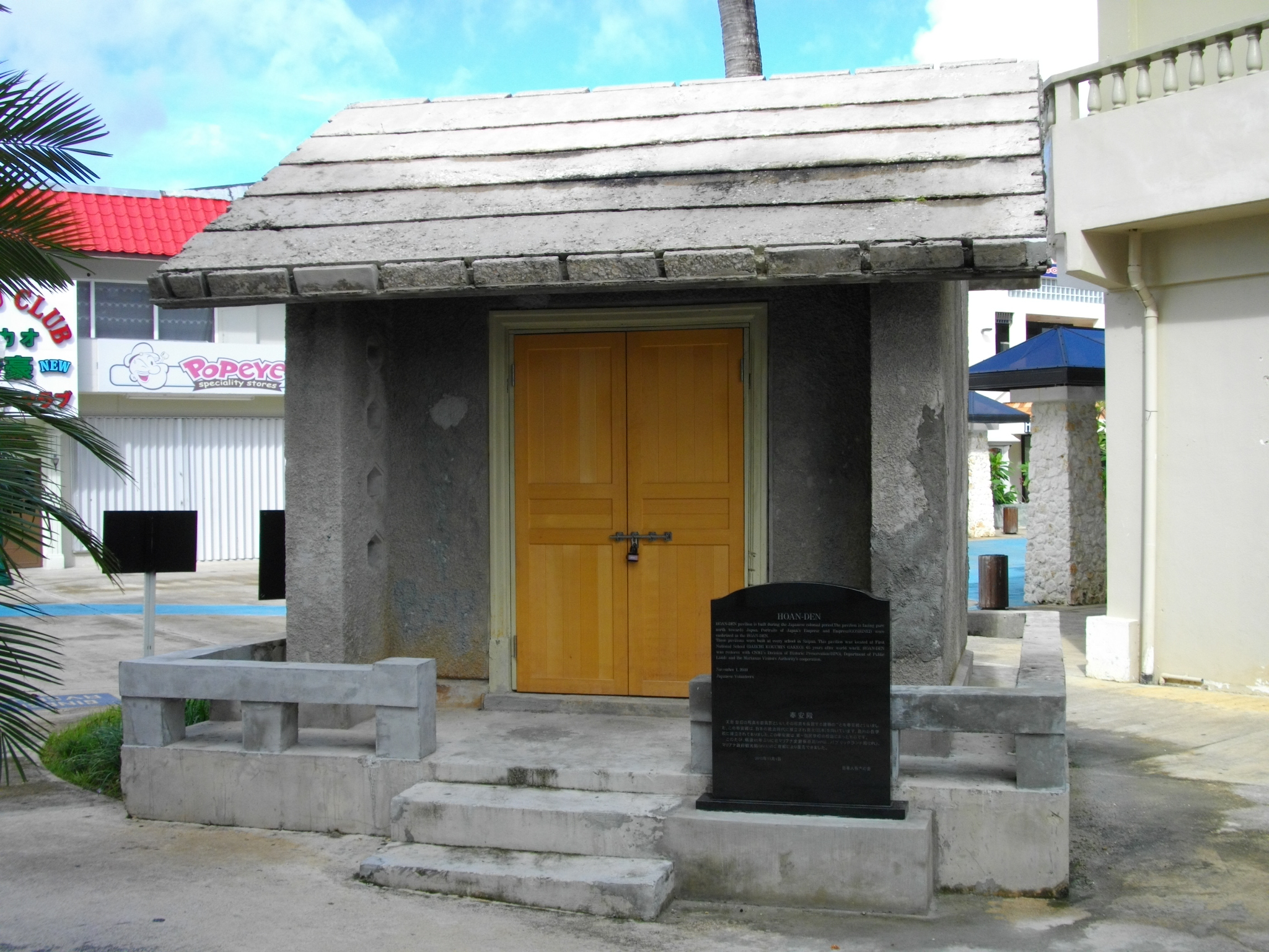 Former Hoan-den at Garapan (It is a restoration.)